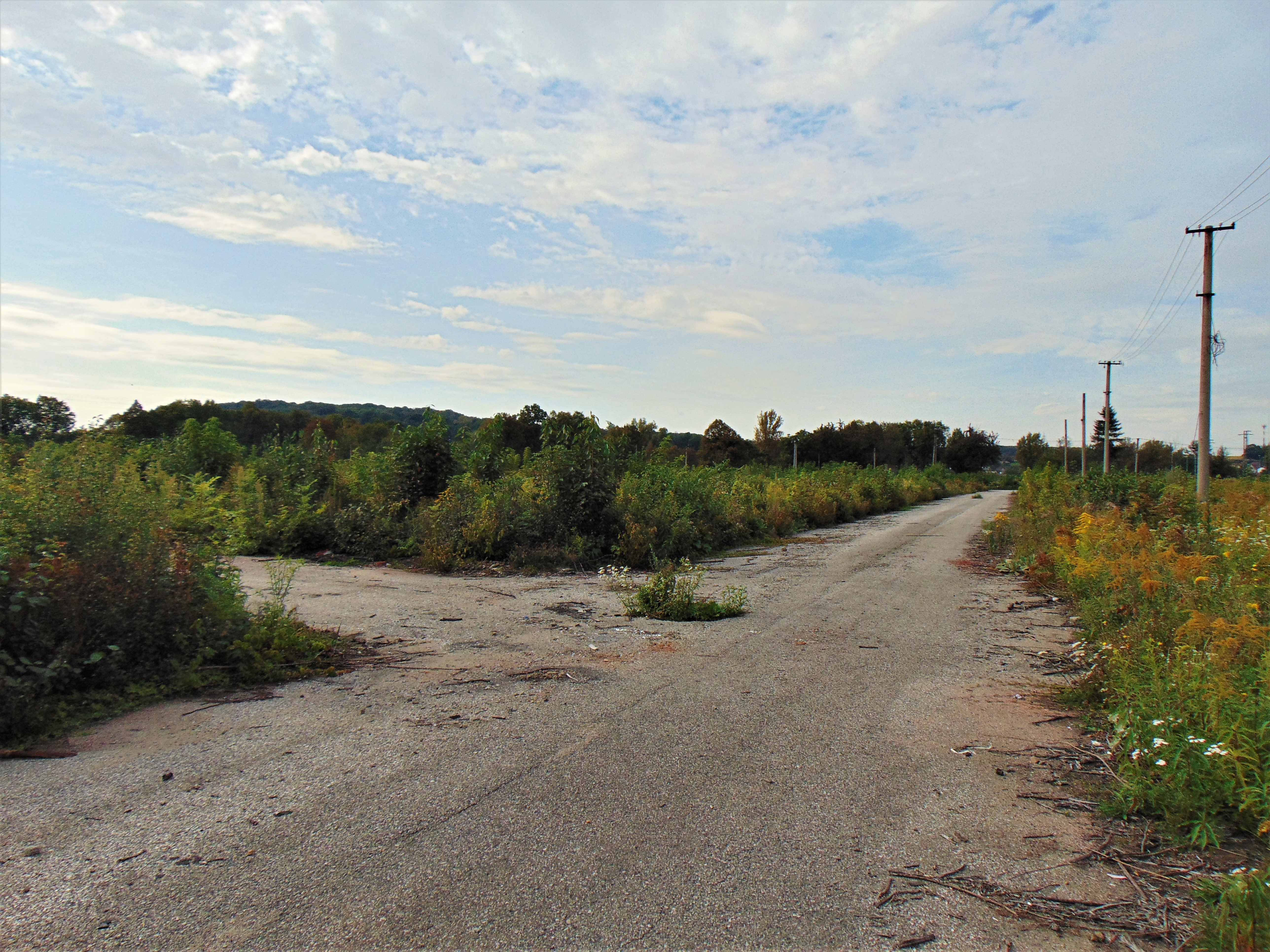 The intersection of former streets Šimonova and Pechalova in Hrušov, the almost abandonend part of Ostrava.